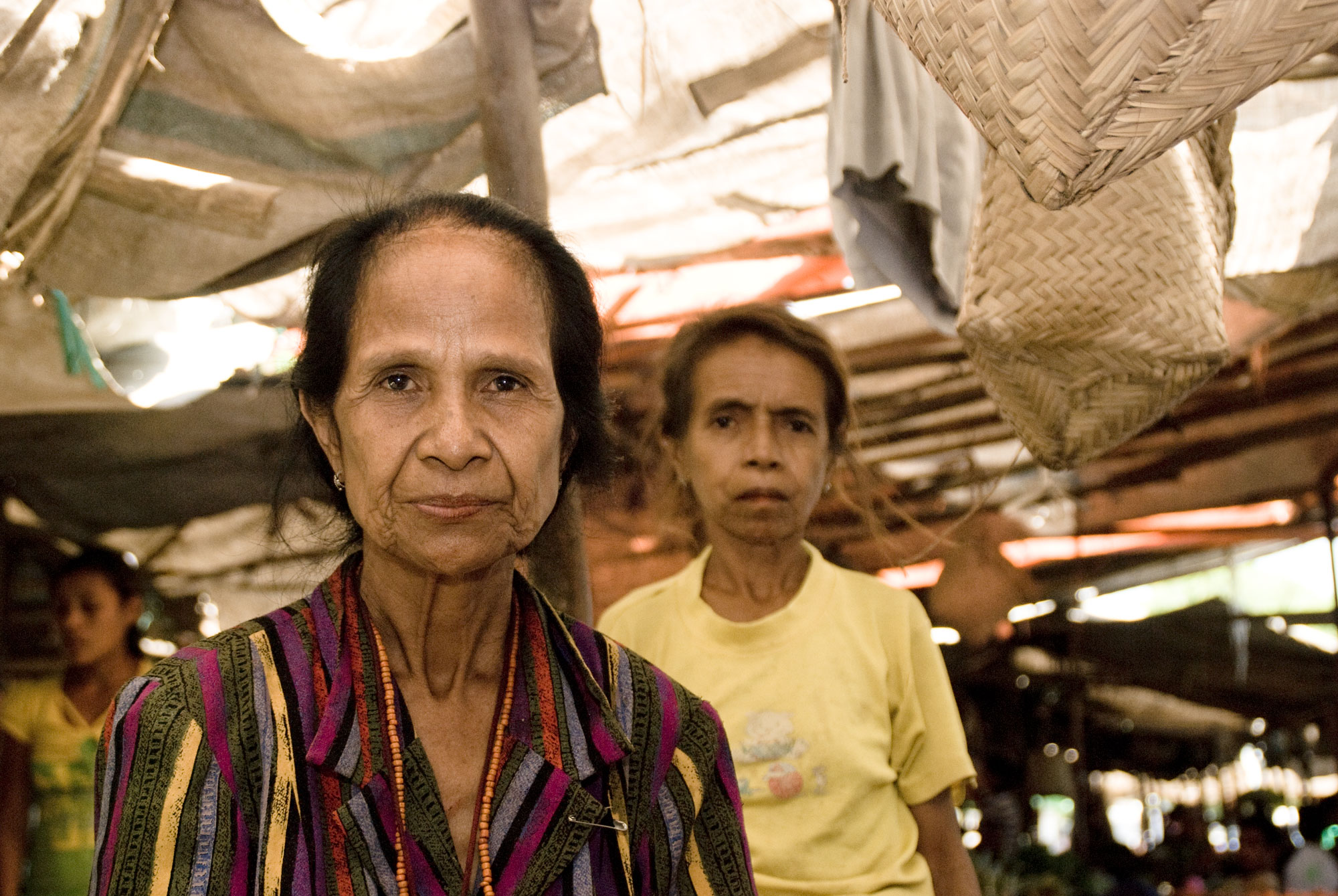 Dili Market Woman, East Timor